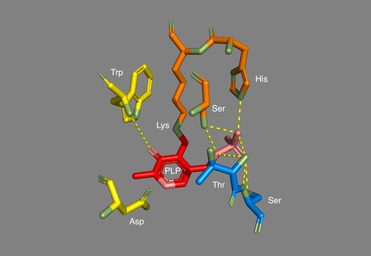 Arginine decarboxylase active site, showing important H-bonding interactions with nearby residues